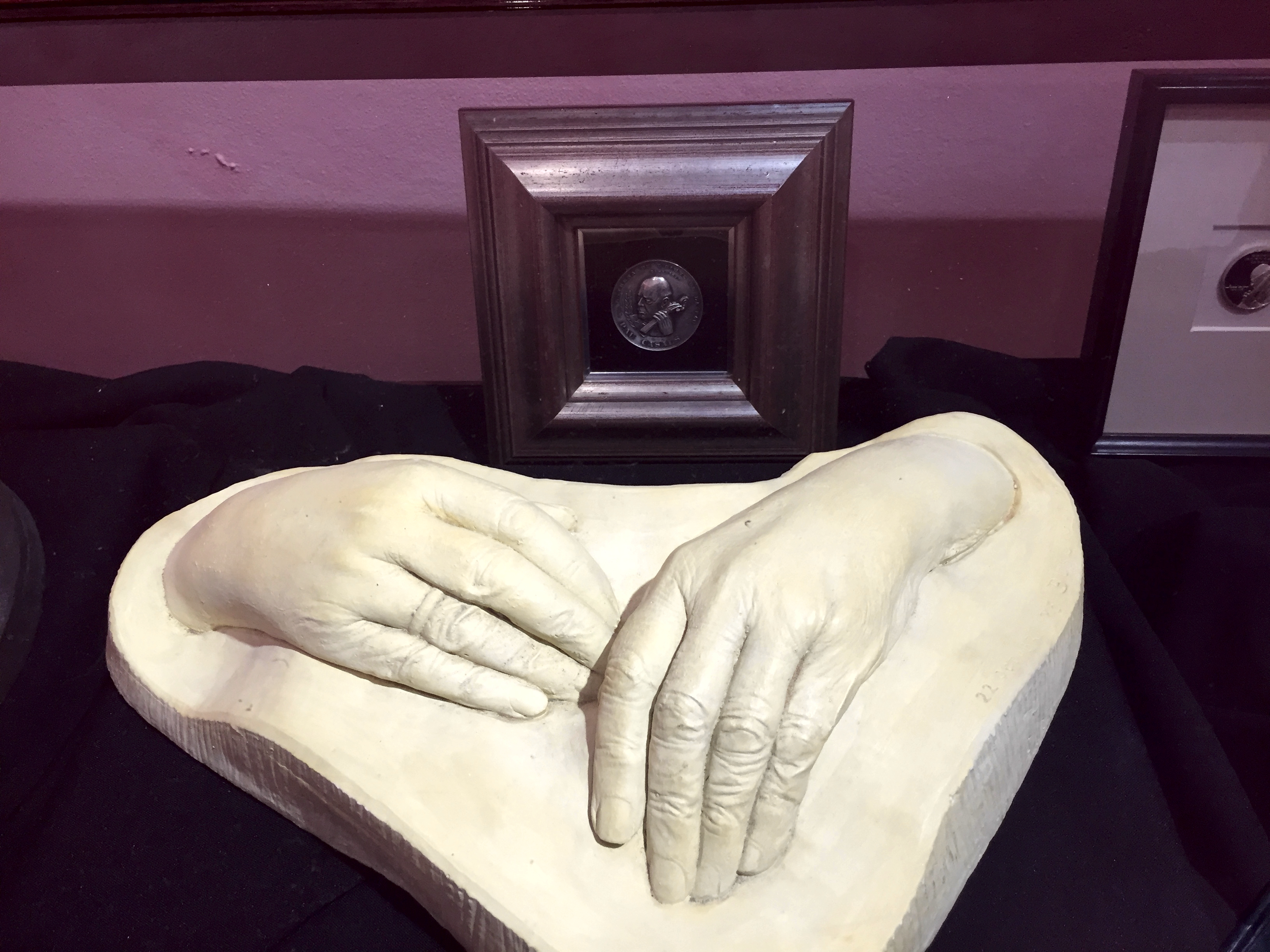 Mold in plaster, hands of Pablo Casals, Casa Pilar Defilló Museum, Mayagüez, PR